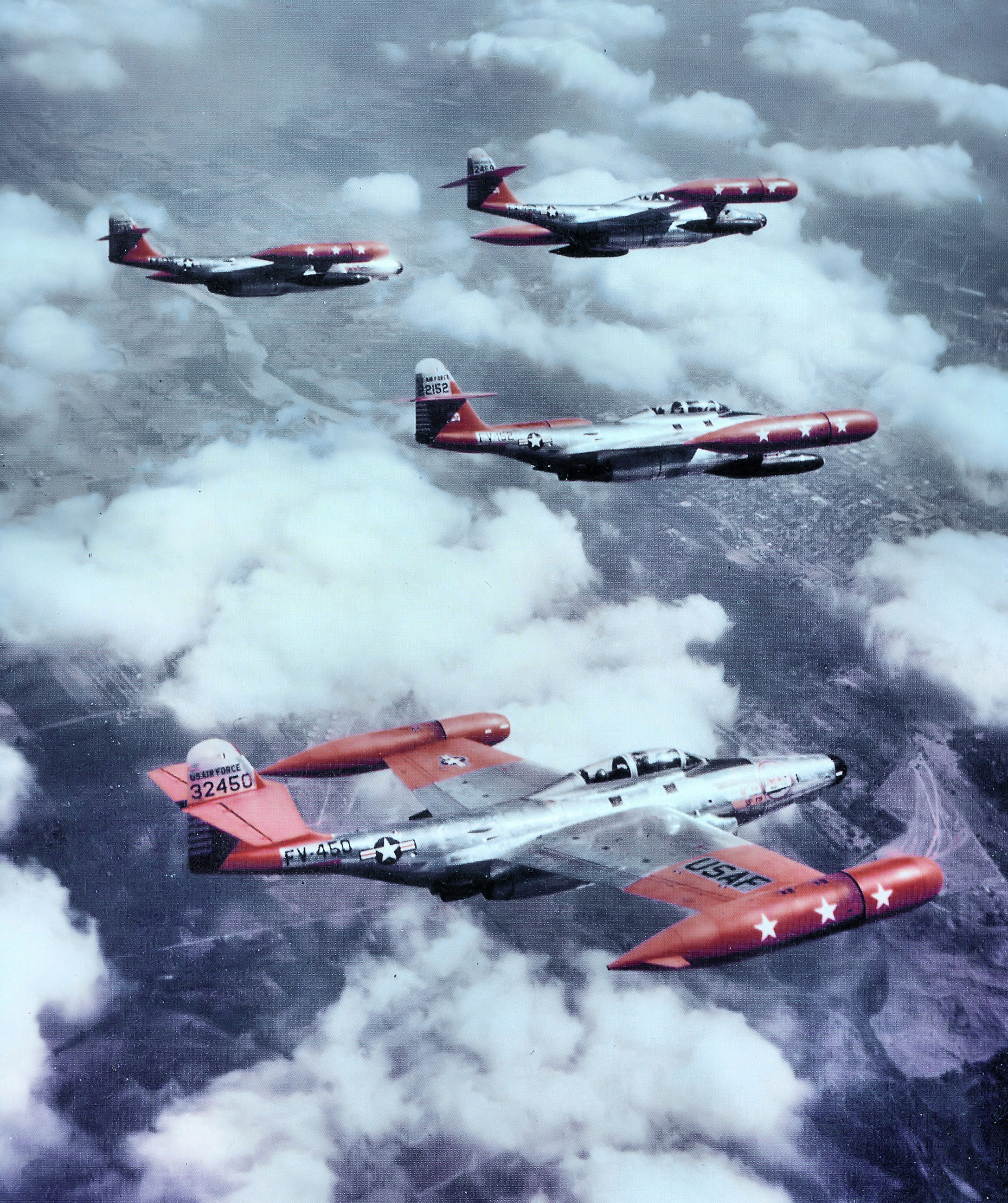 59th Fighter-Interceptor Squadron Northrop F-89D Scorpions Known as the "Northeast Air Command Rocket Team"